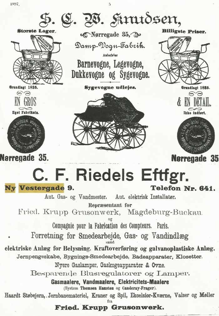 Advert for C.F. Riedels Eftf. Ny Vestergade in Krak.